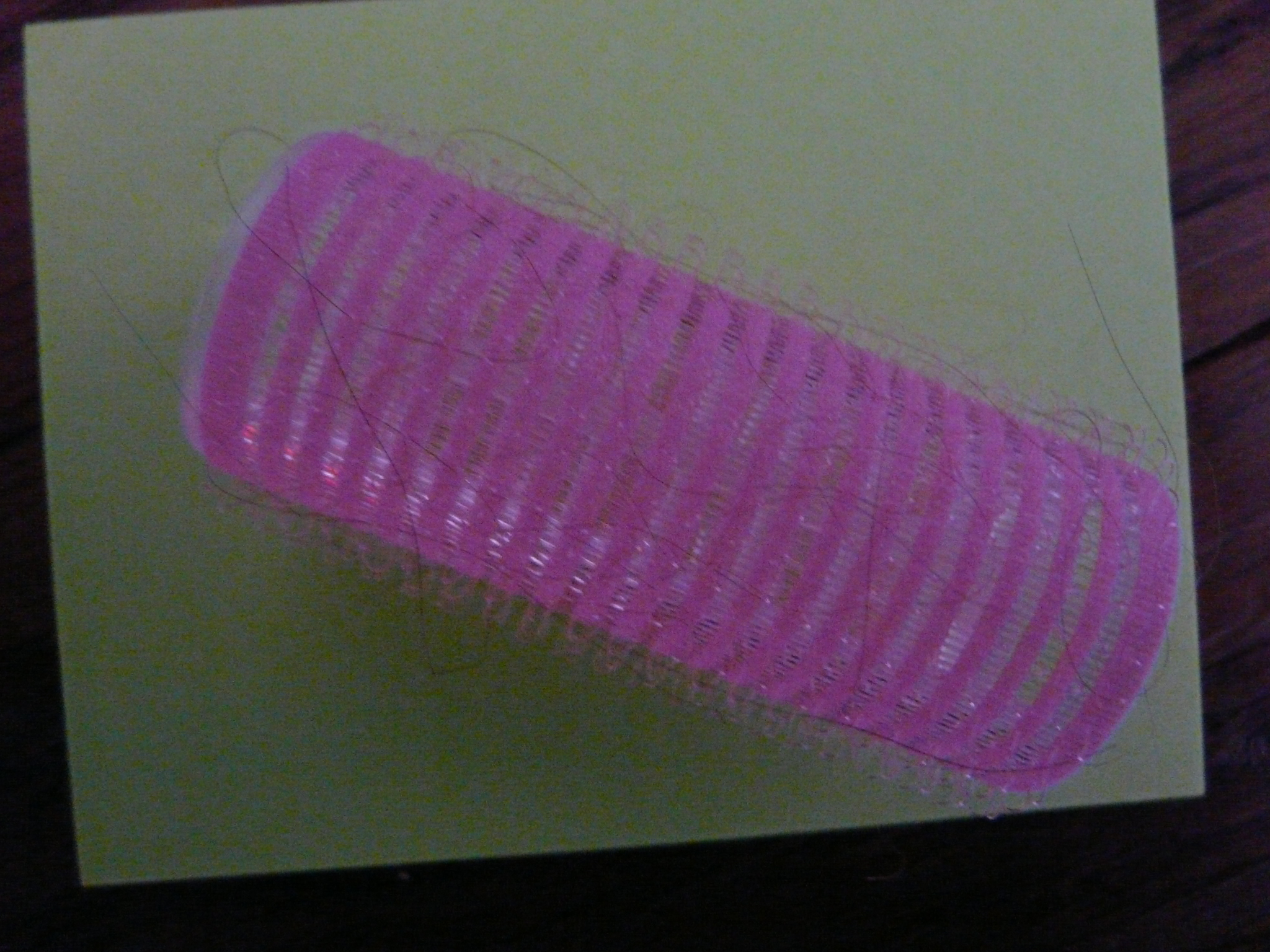 Hair roller